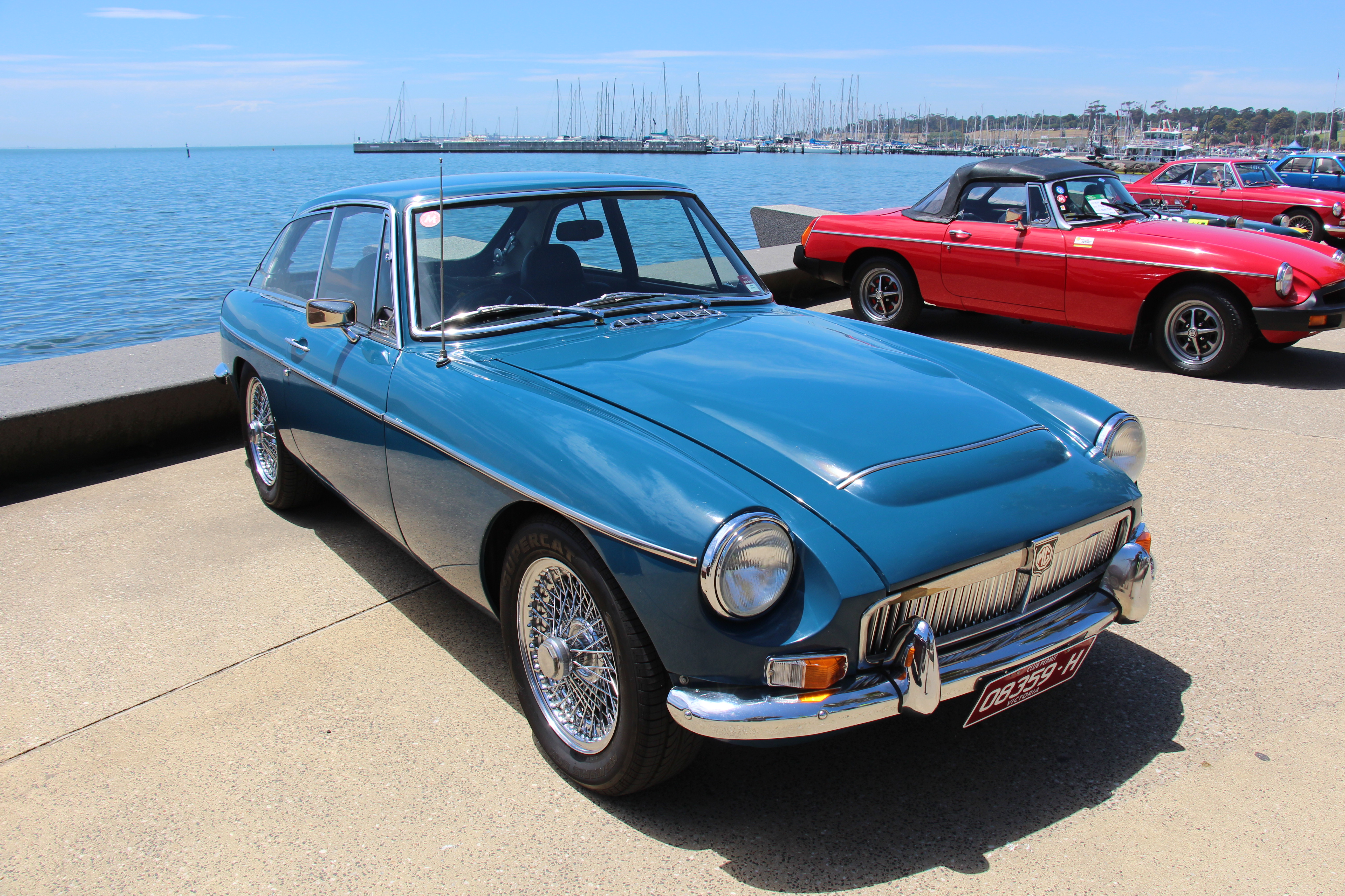 In 1962 the MGA was replaced by the MGB, getting a redesigned lighter body and chassis giving it more space. It was also a better handling car. In England the Mk I was made from 1962-67, also assembled in Australia from 1963-72. Originally only available as a Roadster The 1967-69 MGC was a 2912 cc, straight-6 version of the MGB The engine was from the Austin 3-litre 4-door saloon and given twin carbs. The body shell needed considerable revision around the engine bay and to the floor pan, but externally the only differences were a distinctive bonnet bulge to accommodate the relocated radiator and a teardrop for carburettor clearance. Like the MGB, it was available as a coupe (GT) and roadster